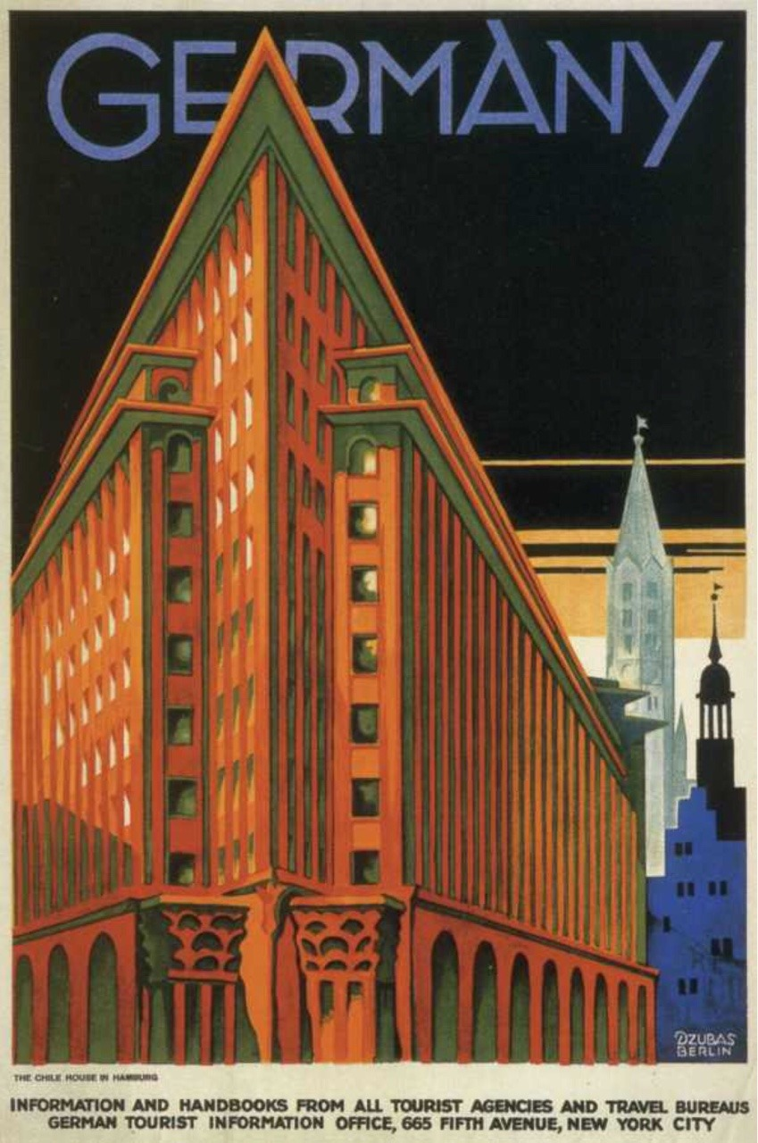 Poster by Willy Dzubas